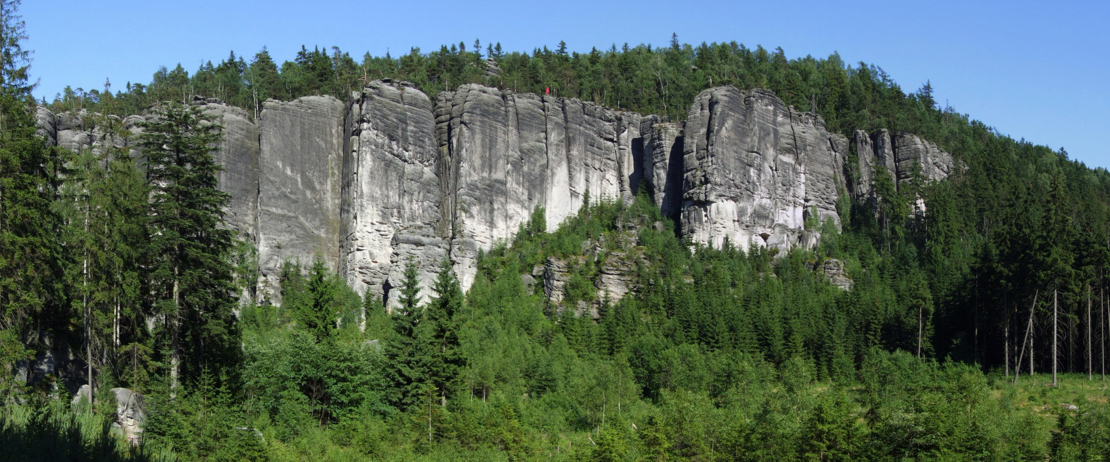 Teplické skalní město (Wekelsdorfer Felsen) - Martinské stěny